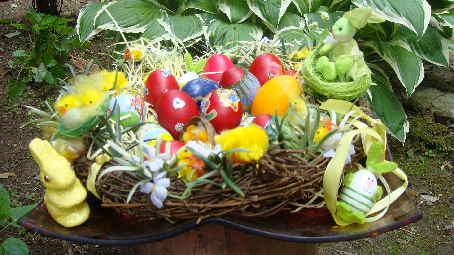 Easter eggs